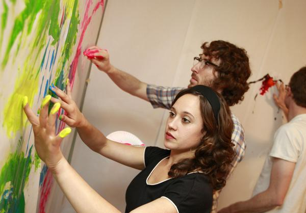 The Botticellis finger-painting at a photo shoot.